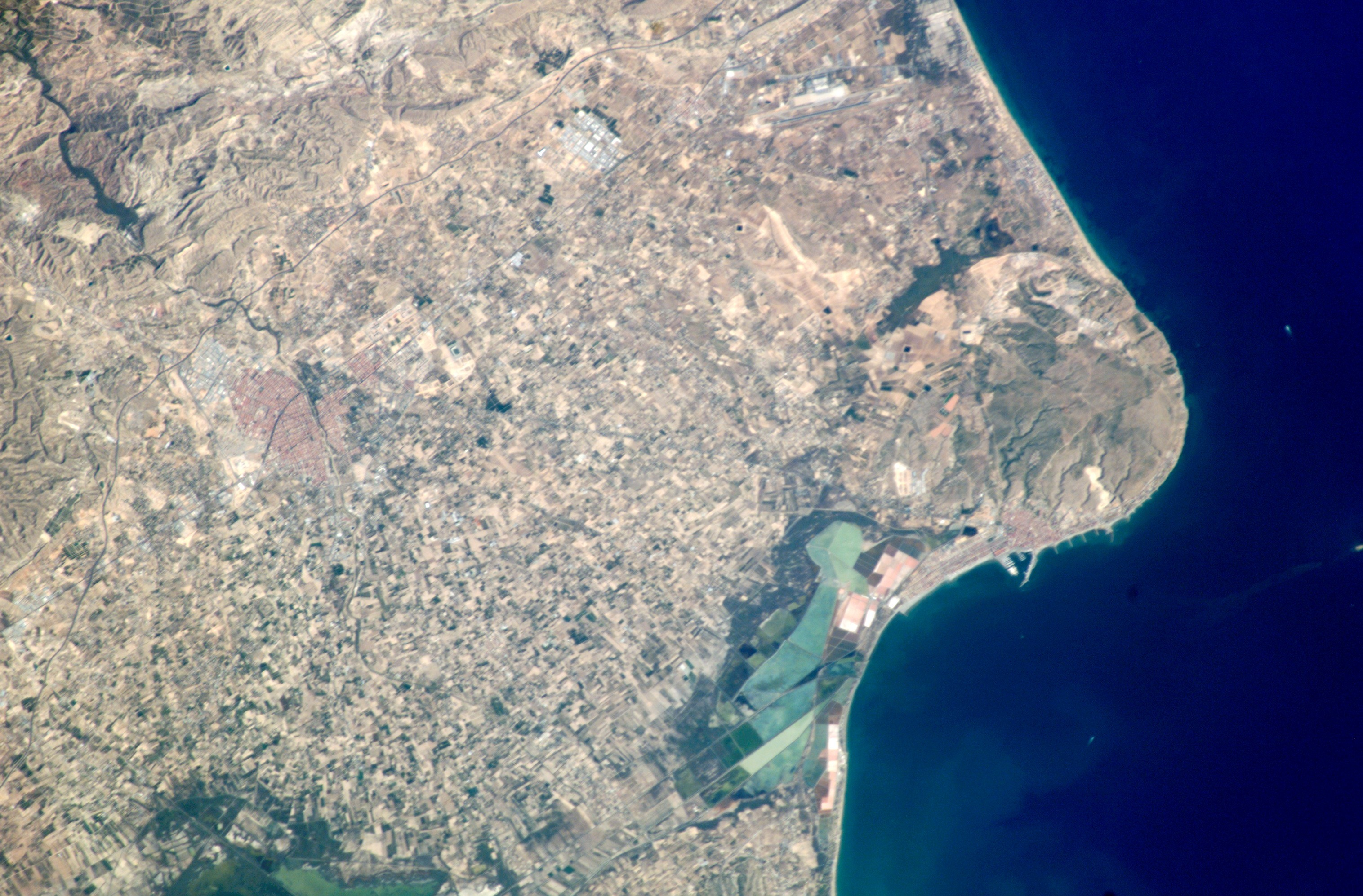 Photograph of Elche (Spain) taken from International Space Station (ISS).